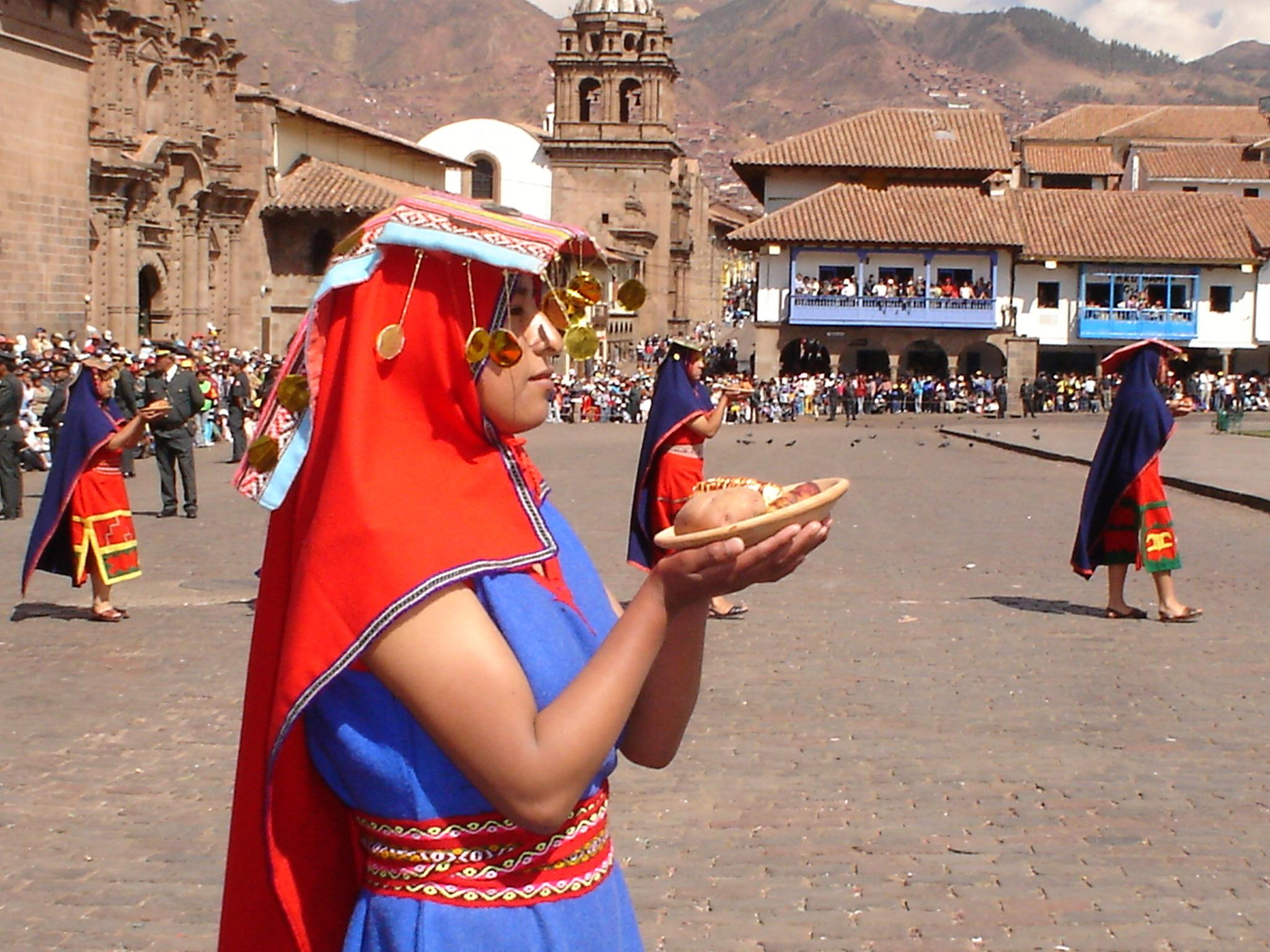 Inti Raymi (Festival of the Sun) at Plaza de Armas, Cusco